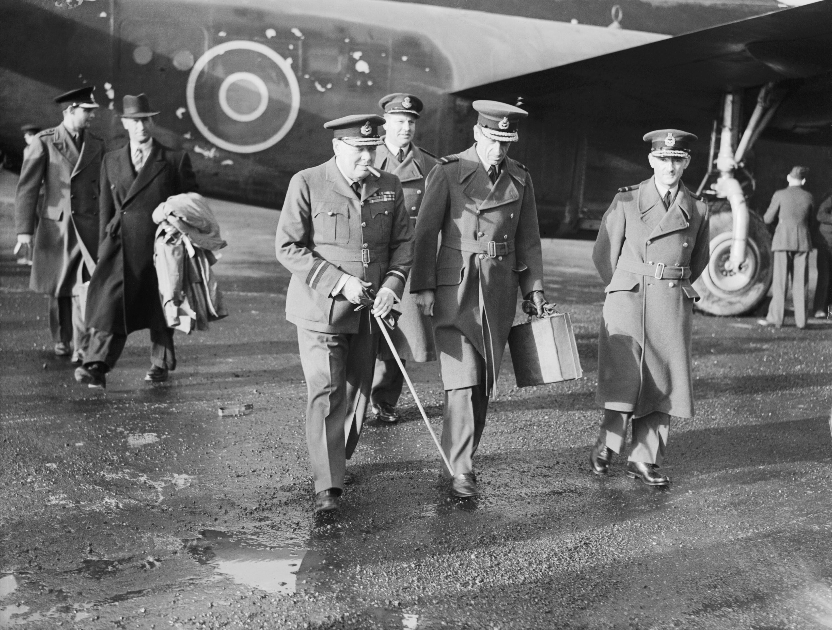 Royal Air Force Ferry Command, 1941-1943. The Prime Minister, Winston Churchill in RAF uniform, accompanied by Air Chief Marshal Sir Charles Portal, Chief of the Air Staff, leaving Consolidated Liberator "Commando" of No. 24 Squadron RAF at Lyneham, Wiltshire, on their return from the Casablanca Conference. 24 Squadron provided VIP transport for the Prime Minister and Chiefs of Staff during the conference and their subsequent tour of the Middle East.